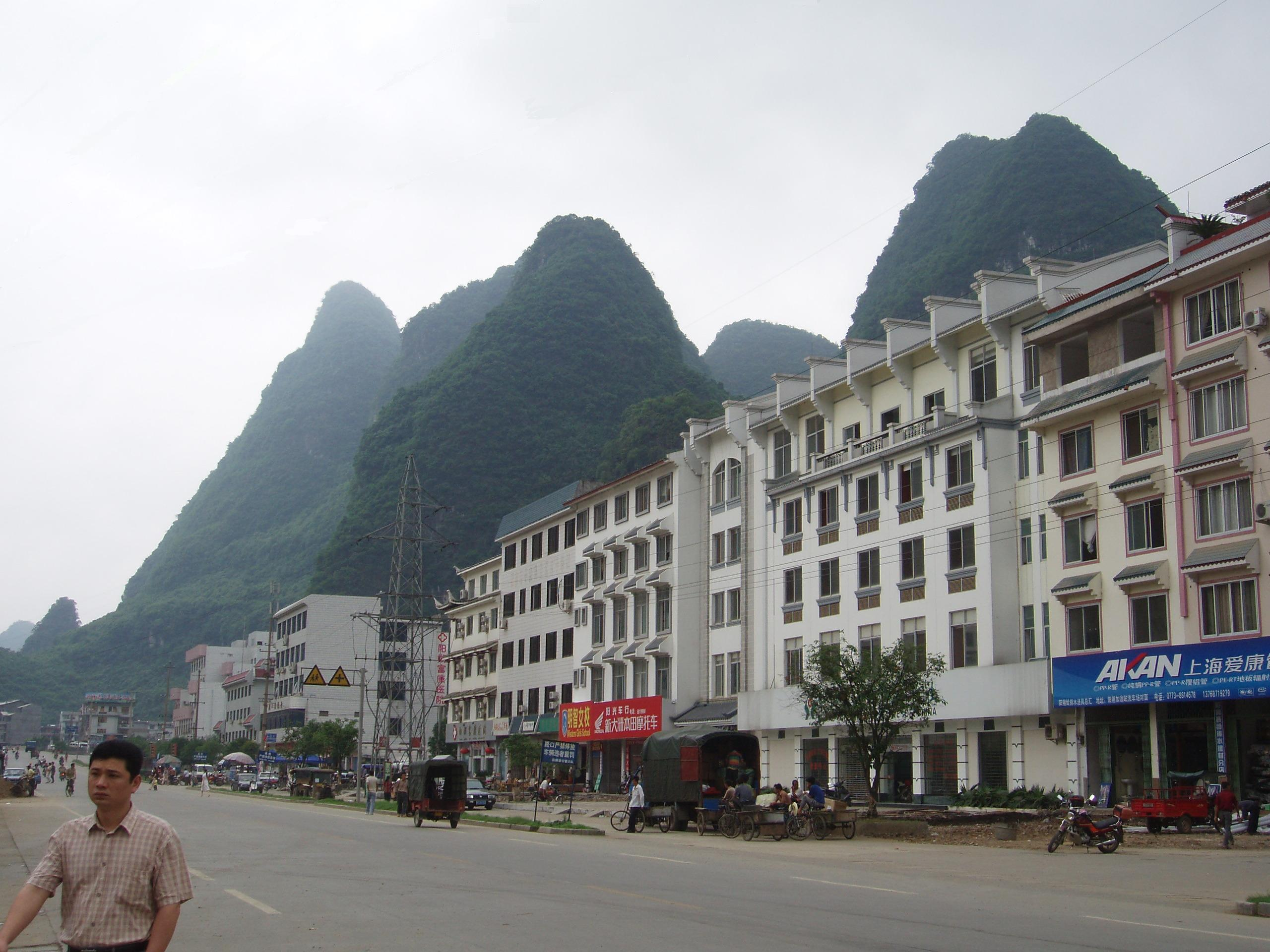 Guilin, a Chinese city